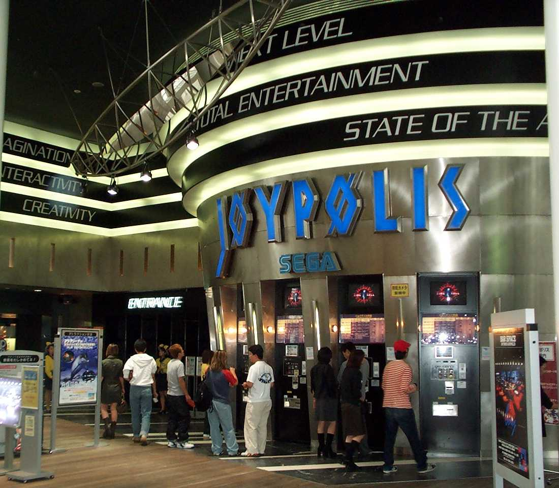 Entrance to the Sega Joypolis in Tokyo. Photo by User:Davepape, 5 October 1999.